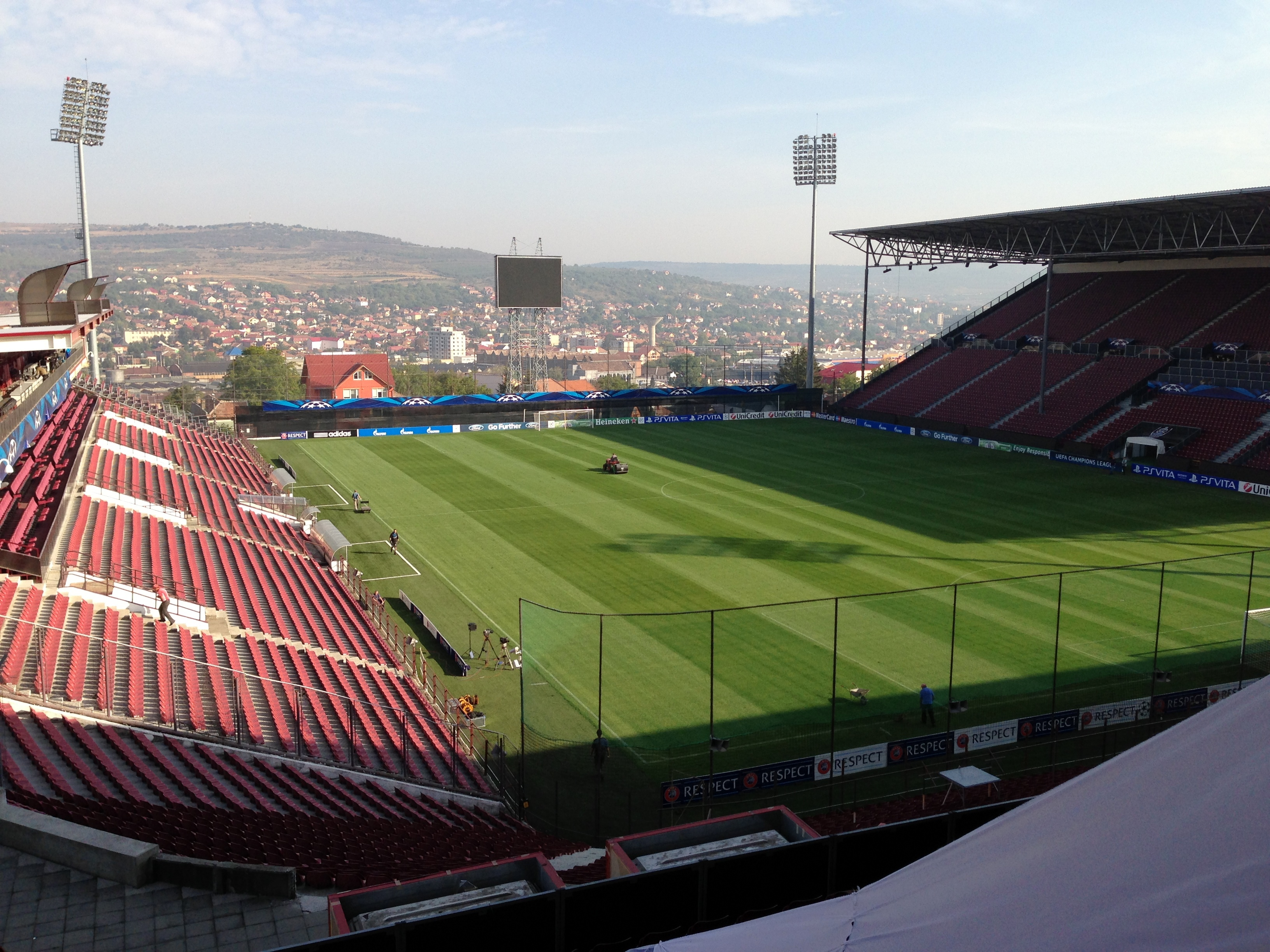 The Dr Constantin Radulescu Stadium in Cluj-Napoca ahead of CFR Cluj v Manchester United in the Group Stage of the 2012/13 UEFA Champions League.